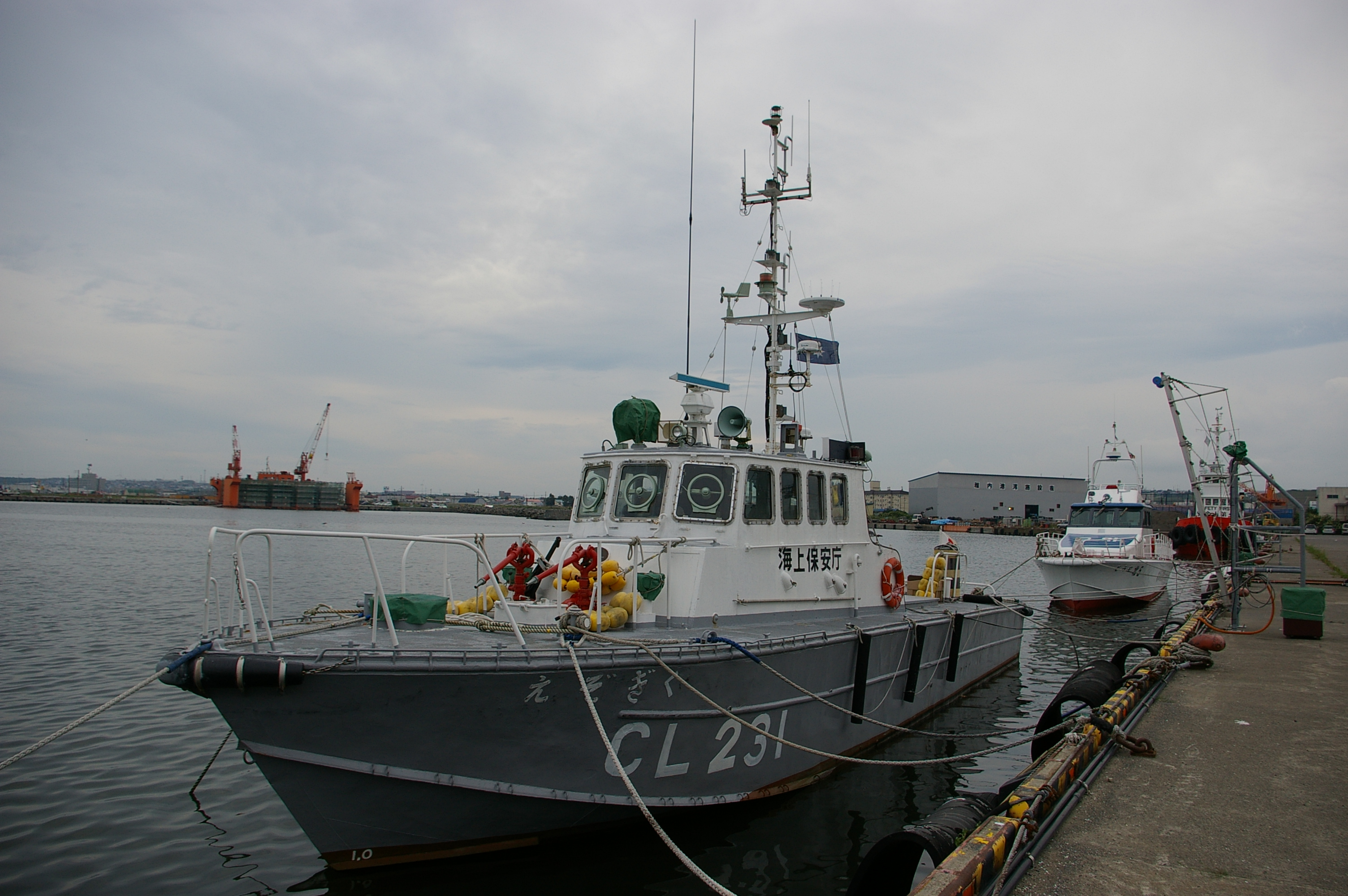 Japan coast guard CL231 EZOGIKU, under anchorage in the Wakkanai harbor.